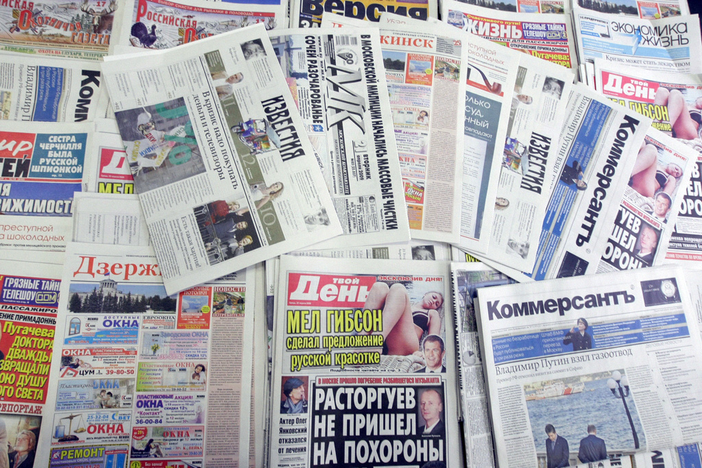 “Cutting-edge printing complex "Extra M" in Krasnogorsk near Moscow”. A lot of Russian popular periodicals are printed at the cutting-edge printing complex "Extra M" in Krasnogorsk near Moscow, one of the largest Russian companies that produce full-color newspapers and magazines.